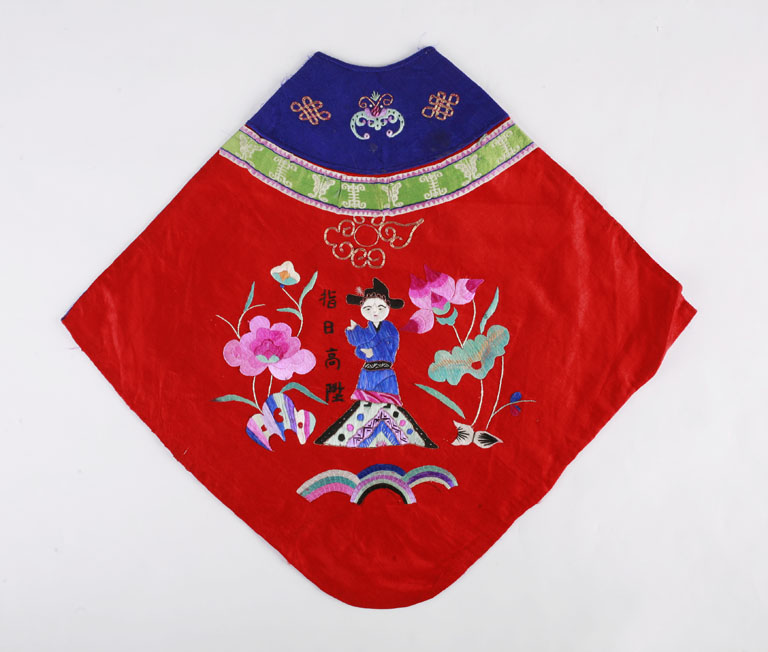 An Embroidered infant undergarment in the permanent collection of The Children’s Museum of Indianapolis.